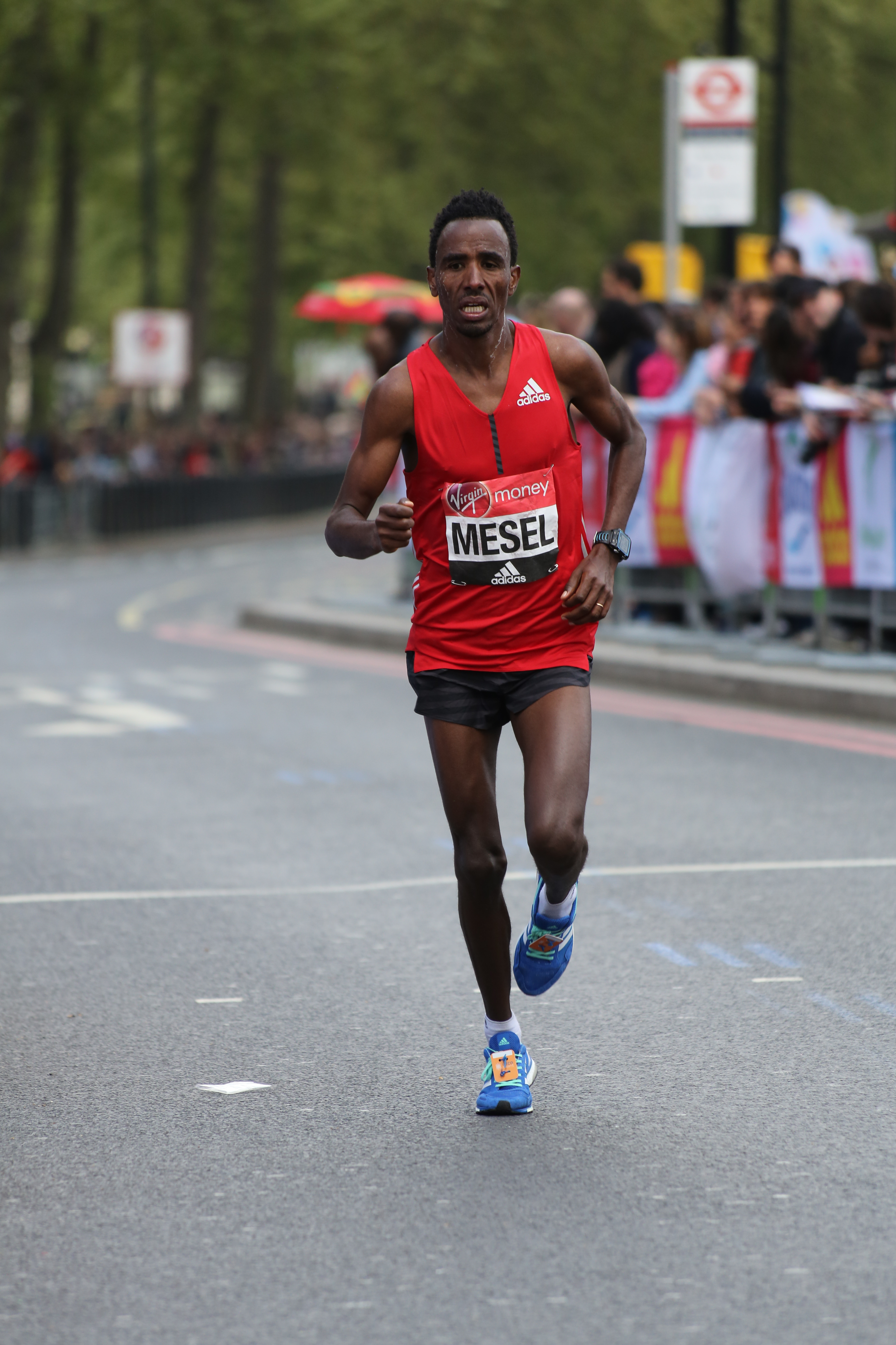 2017 London Marathon – Amanuel Mesel